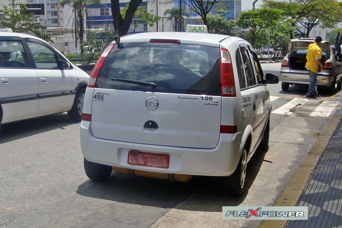 Flexible-fuel Chevrolet Meriva used as taxi converted to run also on natural gas (Flex + NGV, or tri-fuel), Sao Paulo, Brazil. The CNG tanks are located underneath in the rear.